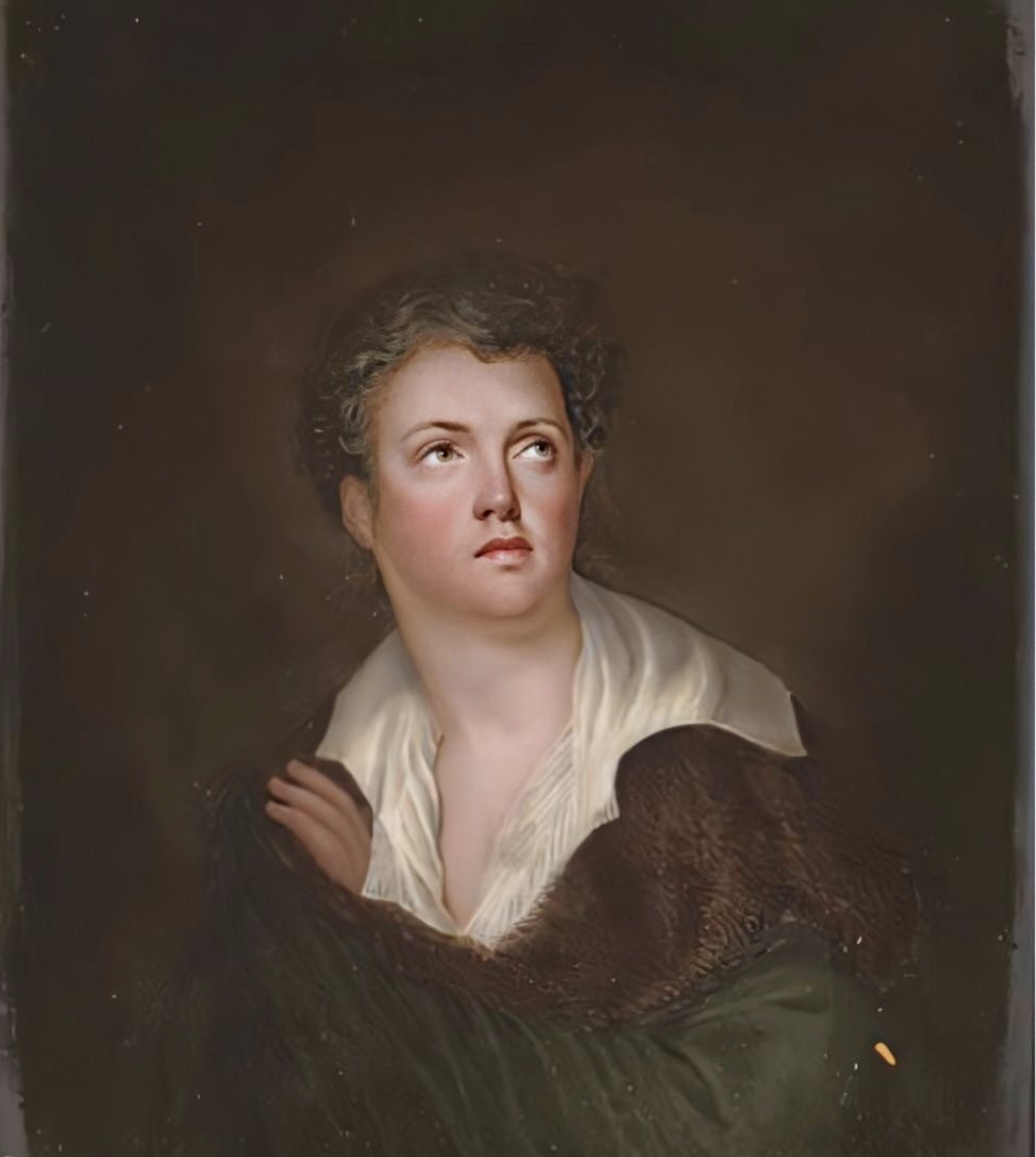 A portrait miniature of Lloyd Hesketh Bamford-Hesketh, c.1810